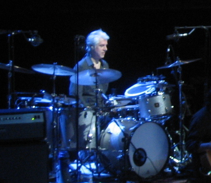 R.E.M. performing in 2008